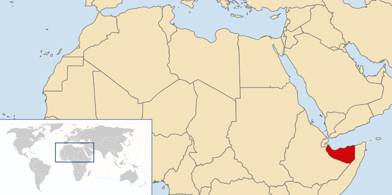 Map showing the location of the State of Somaliland in the few days it existed in 1960.